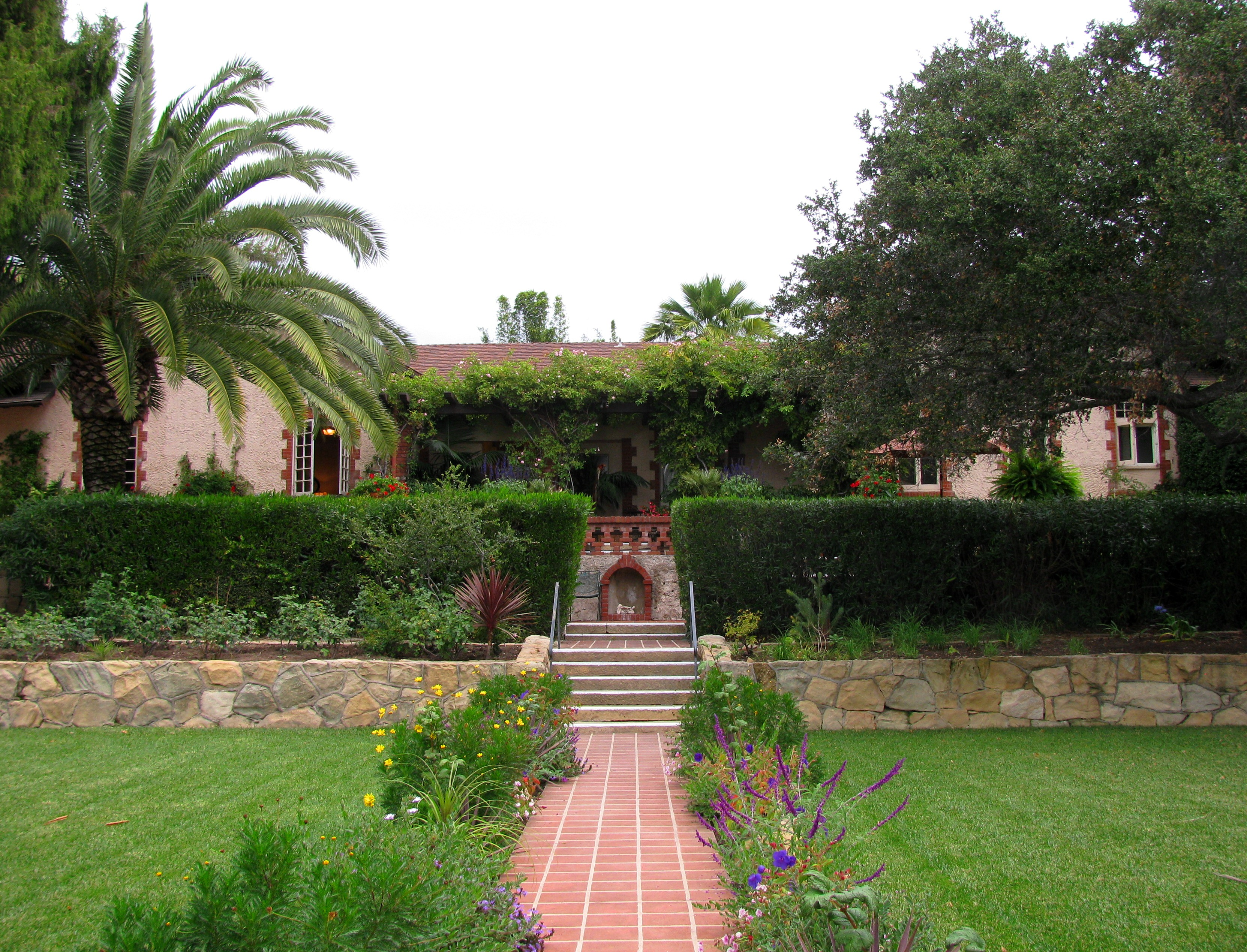 Alexander Gardens (1906), by Francis W. Wilson, 2120 Santa Barbara St., Santa Barbara, CA. Photo by self, GFDL/equiv, 11/12/11.